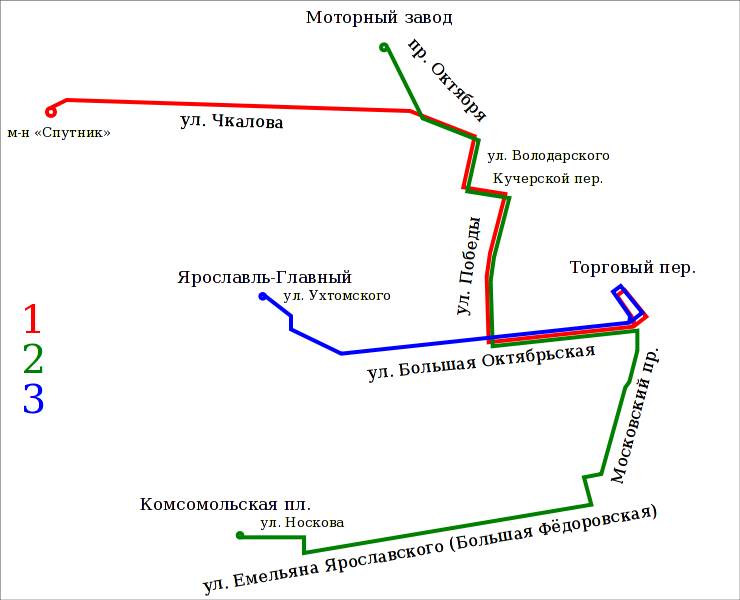 Map of tram lines in Yaroslavl at the beginning of 1970s.